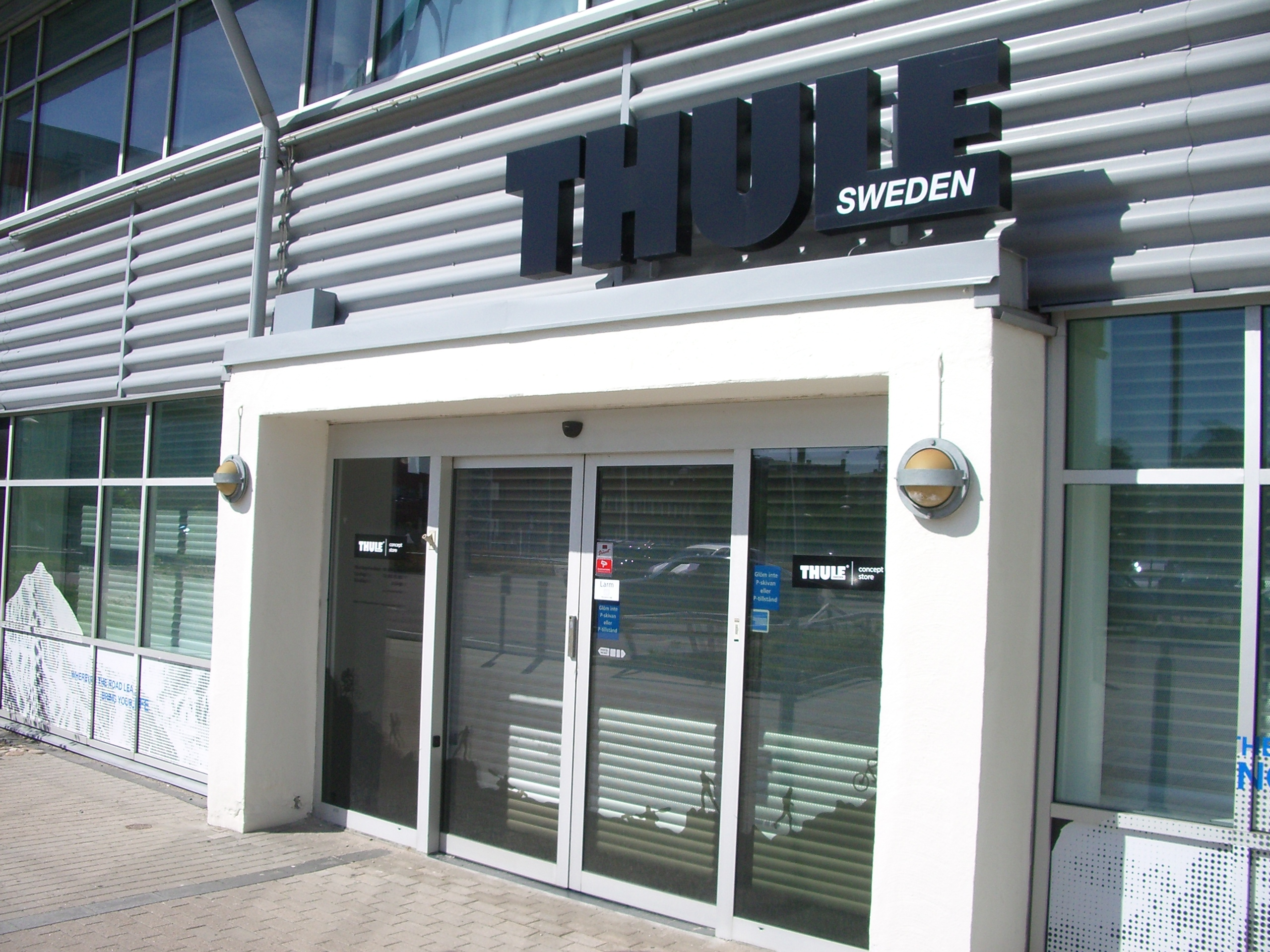 Thule Concept Store at Trelleborgsvägen 14, Malmö (Sweden).